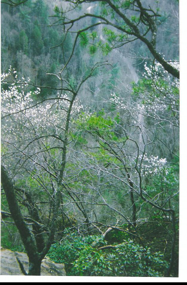 looking down a cliff at road far below, Red River Gorge, Kentucky